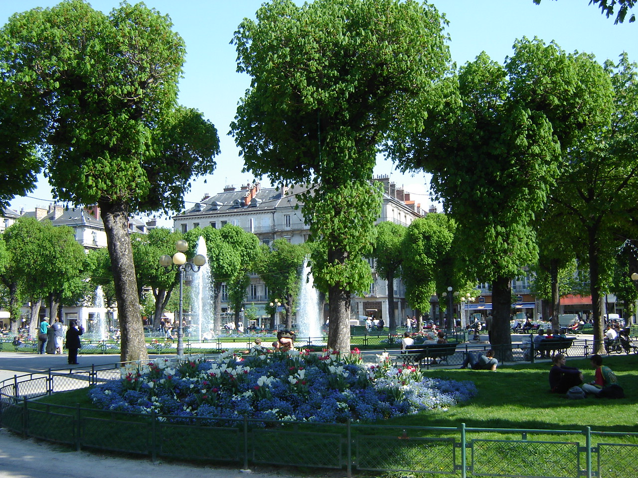 Victor Hugo Square, Grenoble, France